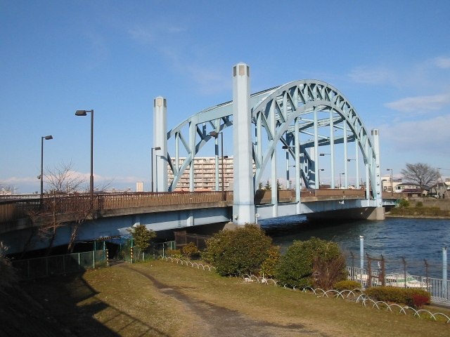 Meiwa-Bashi, Edogawa-ku, Tokyo, Japan